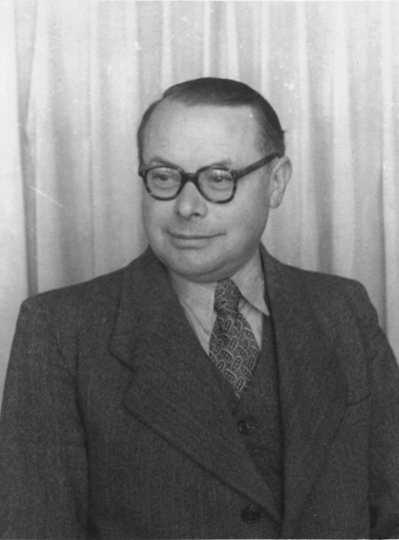 Photograph of Remi De Muyter when we has Mayor of Ursel